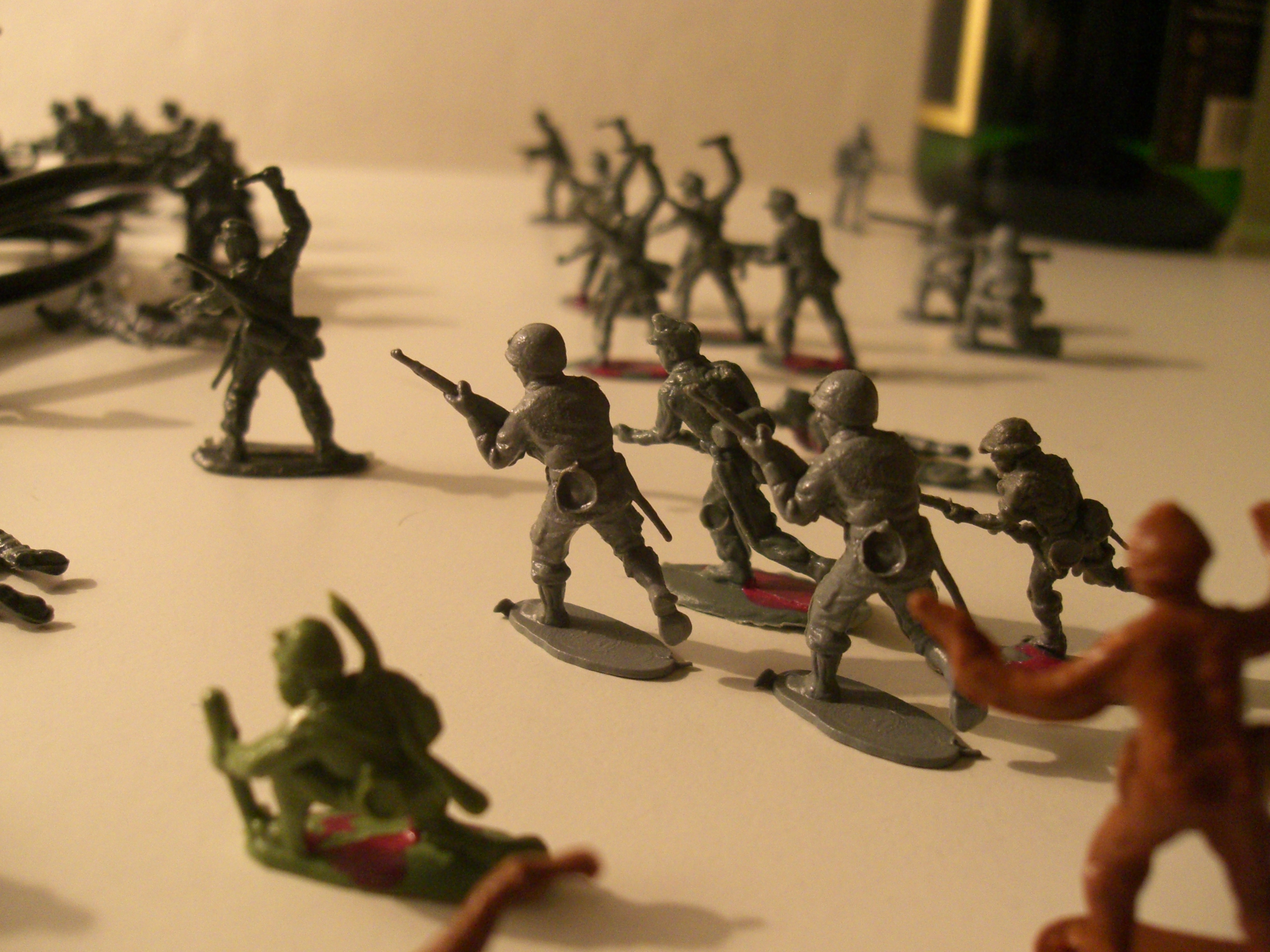 Plastic soldiers - battlefield. Left site is US Army ready for attack, right part is Wermacht.